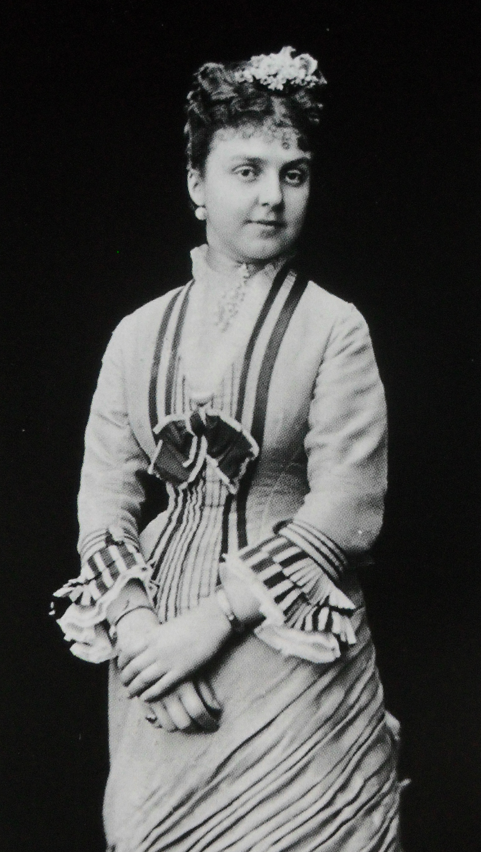 Mercedes, princess of Orleans, Queen of Spain